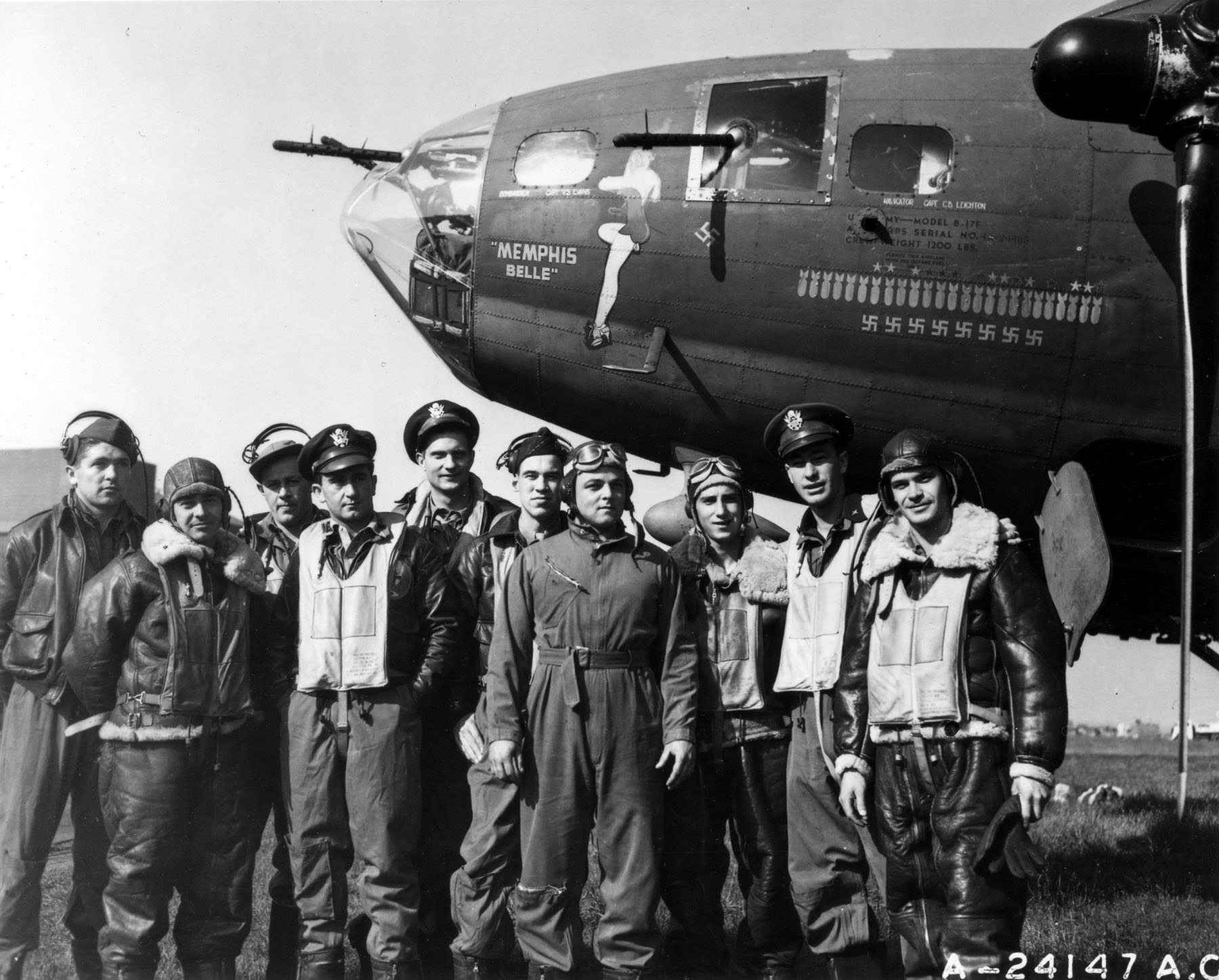 Crew of the Memphis Belle. The crew of the B-17 Flying Fortress "Memphis Belle" is shown at an air base in England after completing 25 missions over enemy territory on June 7, 1943. They are, left to right: Tech. Sgt. Harold P. Loch of Green Bay, Wis., top turret gunner; Staff Sgt. Cecil H. Scott of Altoona, Penn., ball turret gunner; Tech. Sgt. Robert J, Hanson of Walla Walla, Wash., radio operator; Capt. James A. Verinis, New Haven, Conn., co-pilot; Capt. Robert K. Morgan of Ashville, N. C., pilot; Capt. Charles B. Leighton of Lansing, Mich., navigator; Staff Sgt. John P. Quinlan of Yonkers, N. Y., tail gunner; Staff Sgt. Casimer A. Nastal of Detroit, Mich., waist gunner; Capt. Vincent B. Evans of Henderson, Texas, bombardier and Staff Sgt. Clarence E. Wichell of Oak Park, Ill., waist gunner.